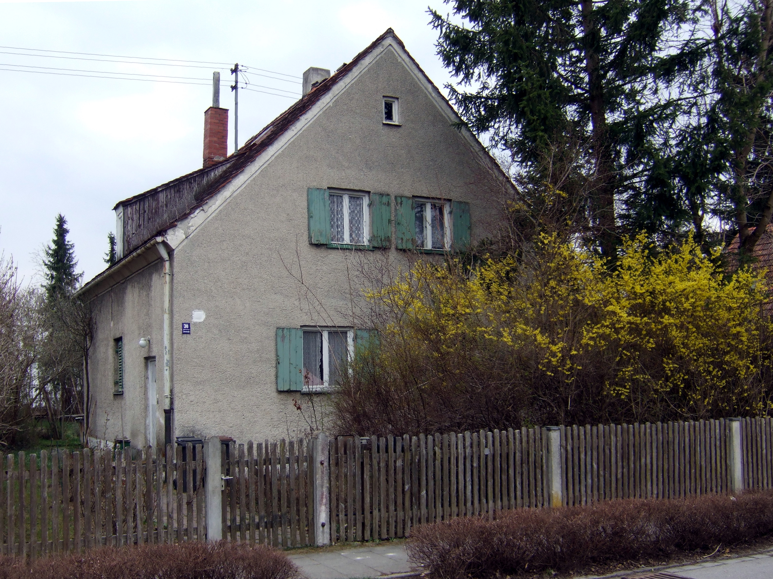 Ottobrunn (30 Jahnstraße): One of originally 37 two family houses belonging to the „Heimkehrer-Siedlung“ („homecomers' housing estate“) which was erected in 1958/59.